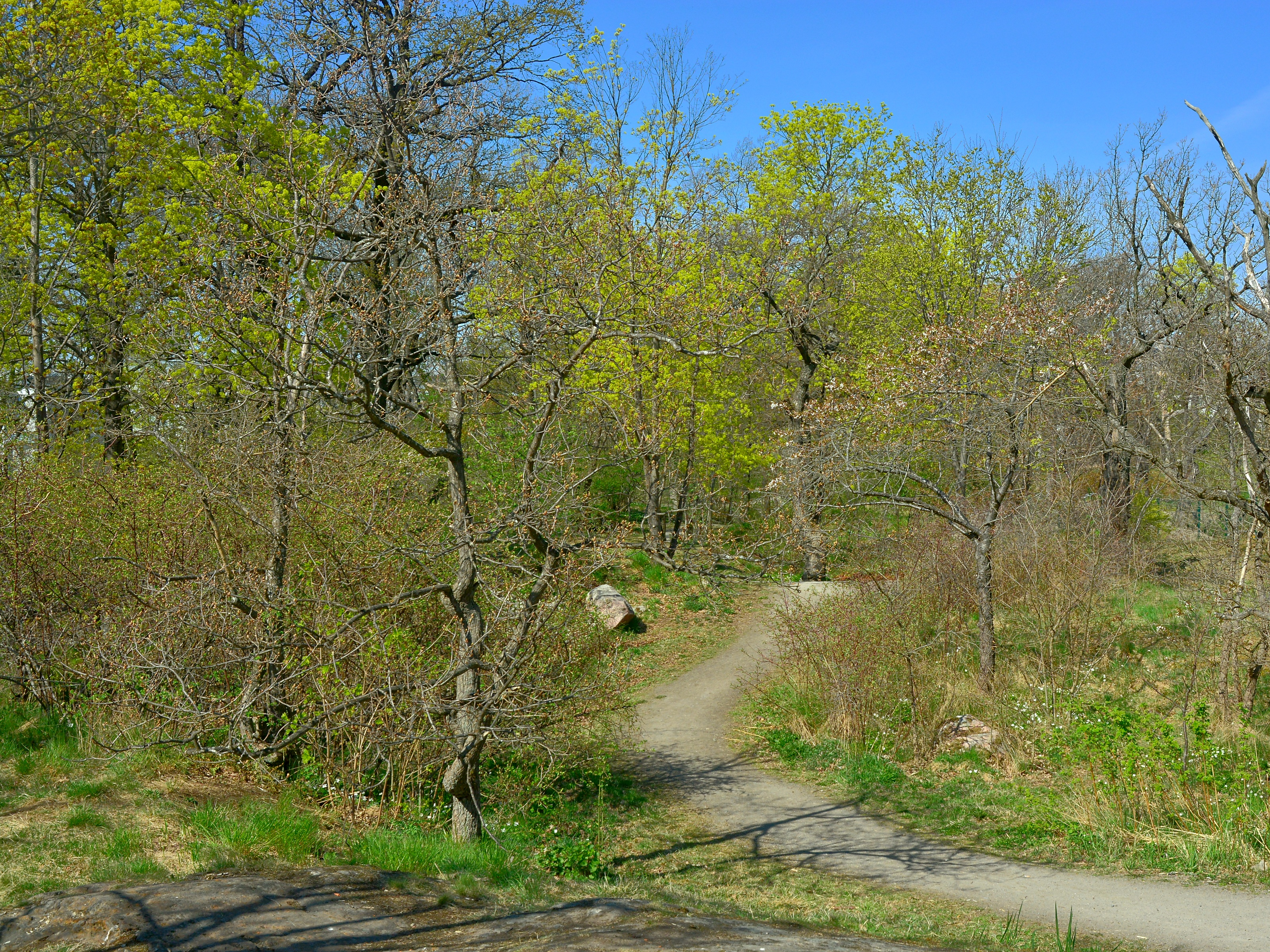 Sickla park, Hammarby Sjöstad, Stockholm, Sweden.